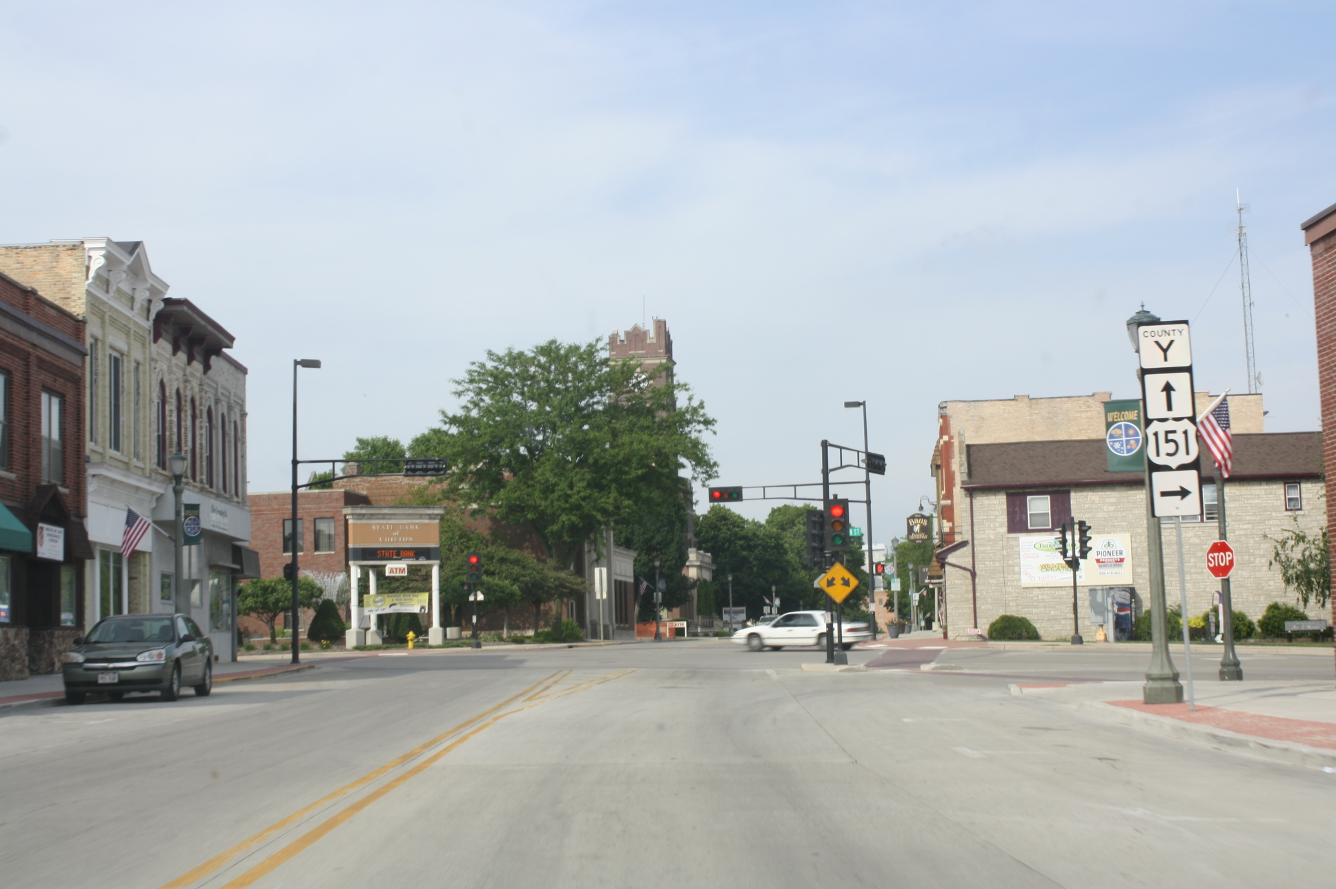 Looking east in uptown Chilton, Wisconsin on U.S. Route 151.